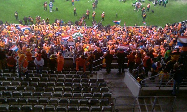 06 July 2010 - Netherlands vs Uruguay in the 2010 Fifa World Cup.